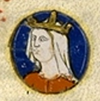 Isabella of Aragon